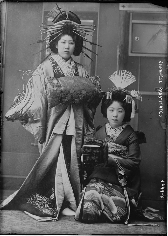 Oiran in Japan in 1917